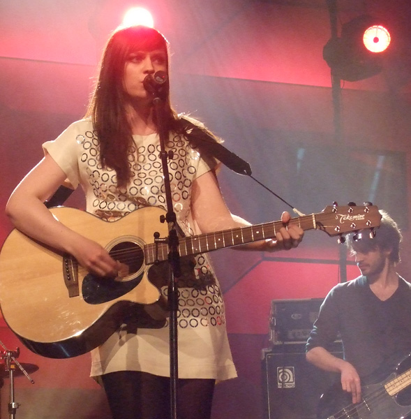 Amy Macdonald performing in Amadeus Austrian Music Awards 2008 in Vienna